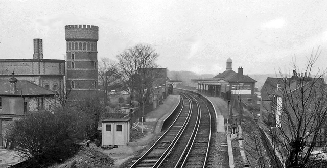 Broadstairs Station. View NNW, towards Margate; ex-London, Chatham & Dover Railway, London - Chatham - Faversham - Margate - Ramsgate main line, electrified east of Gillingham in 1959. (Prominent on the left is Crampton Tower).